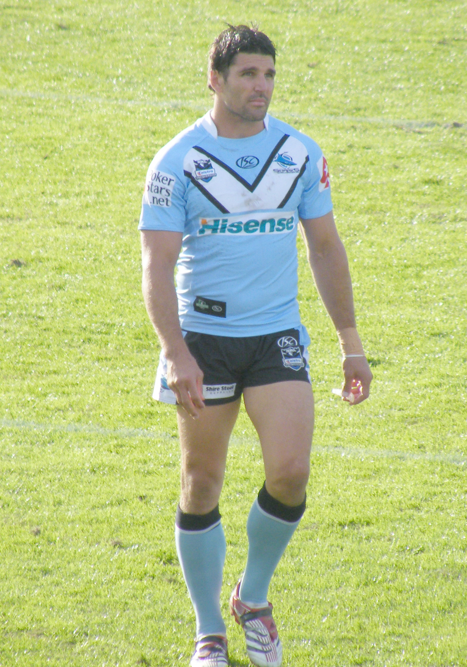 Trent Barrett